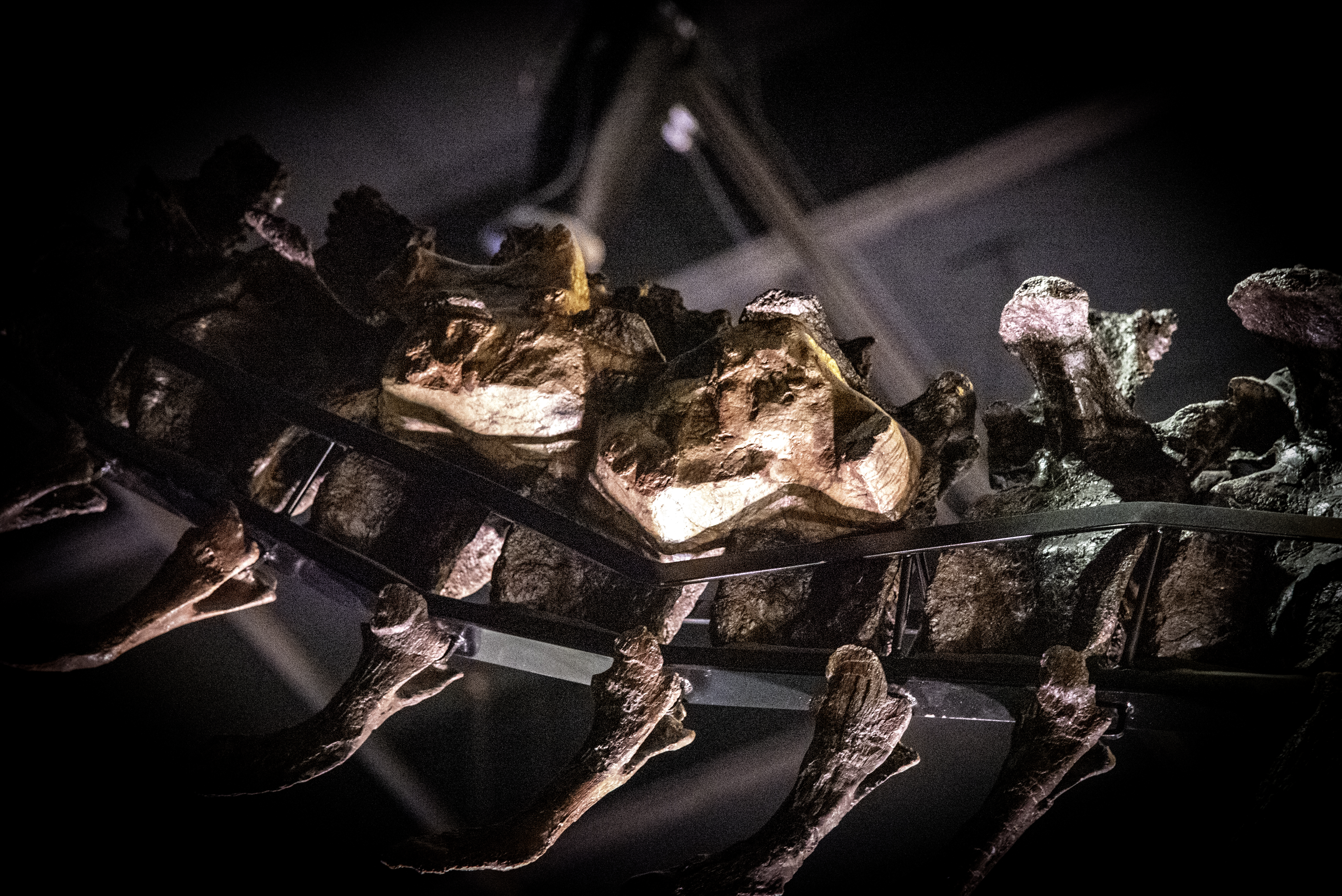 Skin Impression from Wyrex specimen of Tyrannosaurus rex, on display at the Houston Museum of Natural Science, Houston, Texas, USA